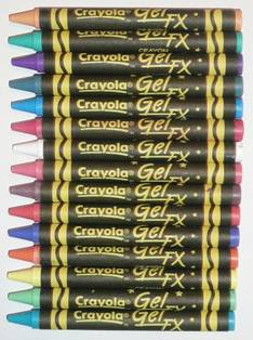 Gel FX Picture